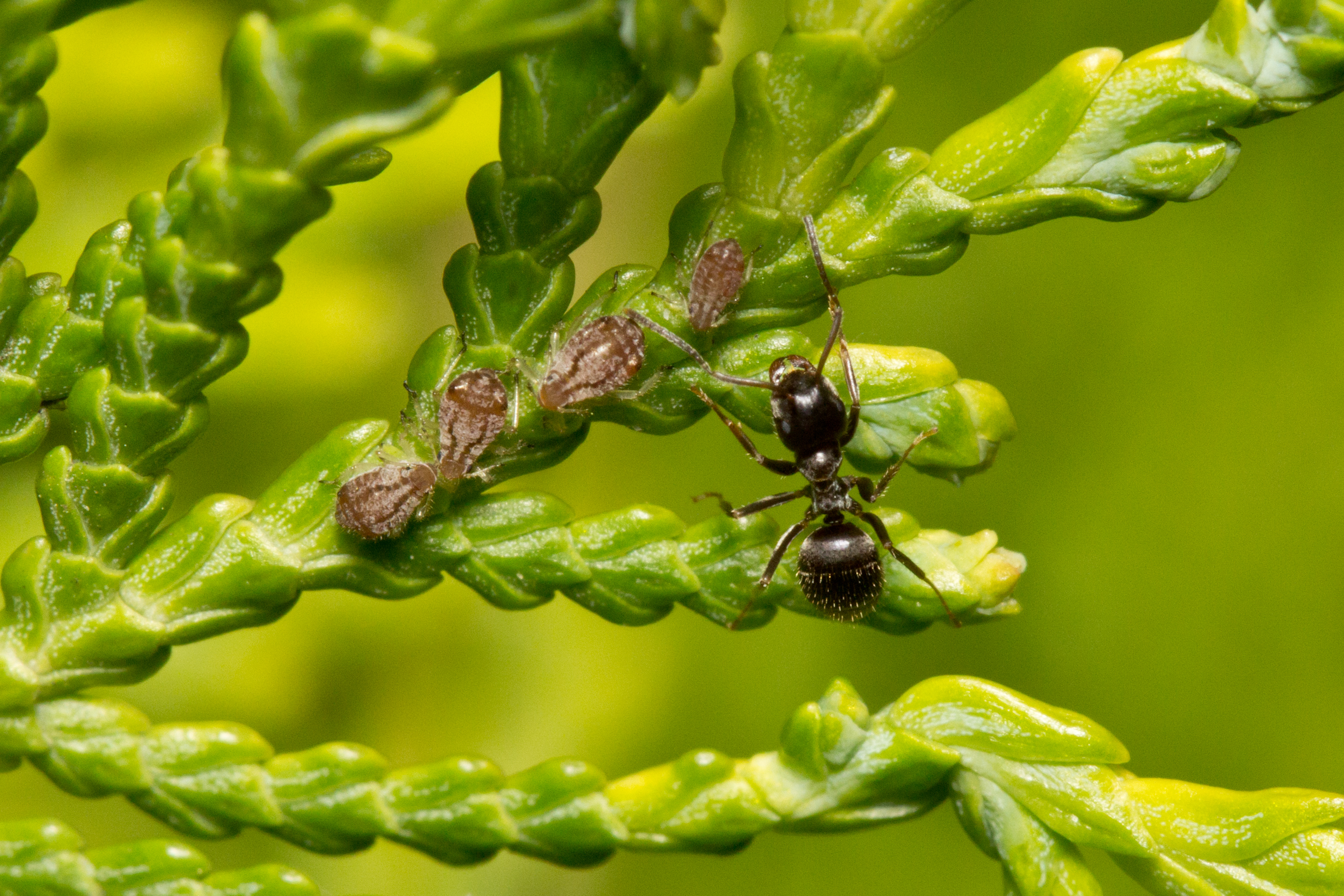 Ant (Lasius niger) and aphids (Cinara tujafilina) on a Thuja occidentalis. Image depicts approximately 18x12 mm.